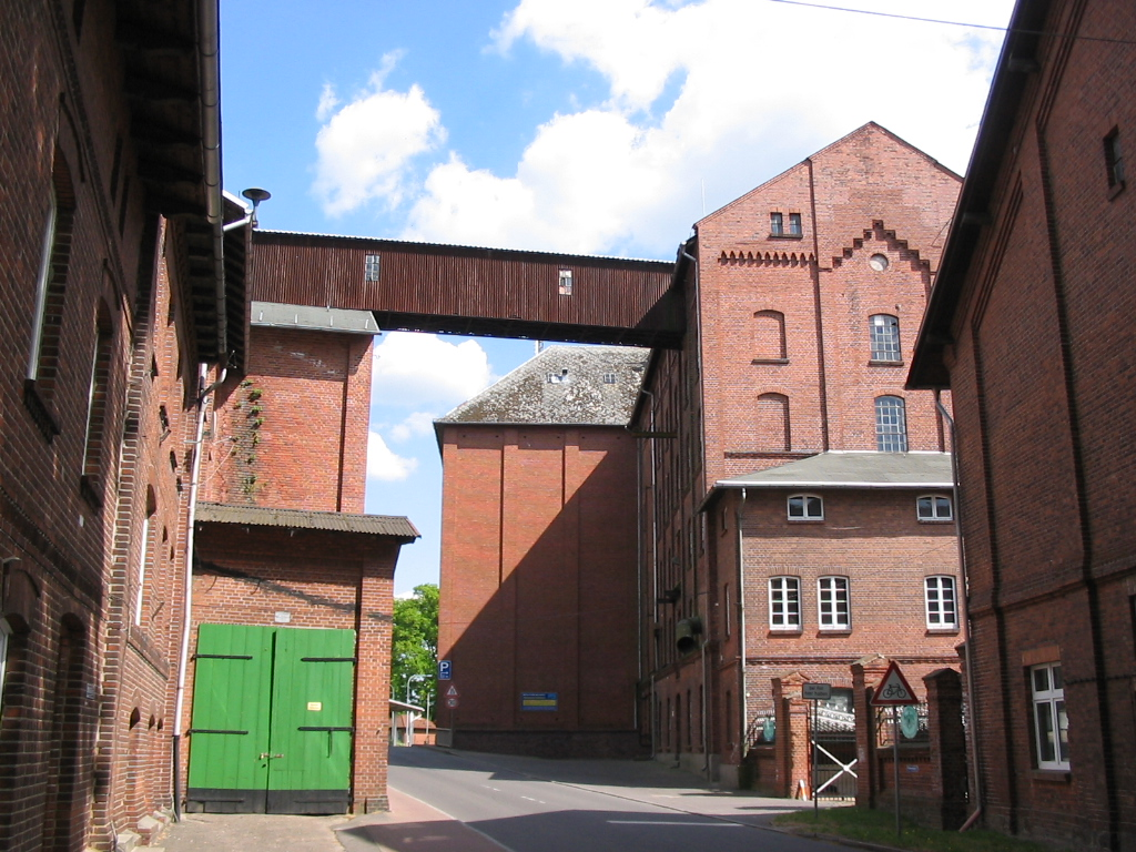 former watermill and today water power plant in Neu Kaliß, Germany at river Müritz-Elde-Wasserstraße